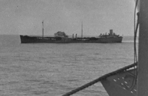 The German tanker Spichern as seen from the Prinz Eugen